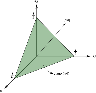 Miller index of a plane (hkl) with intercepts on the direct basis and the direction [hkl]